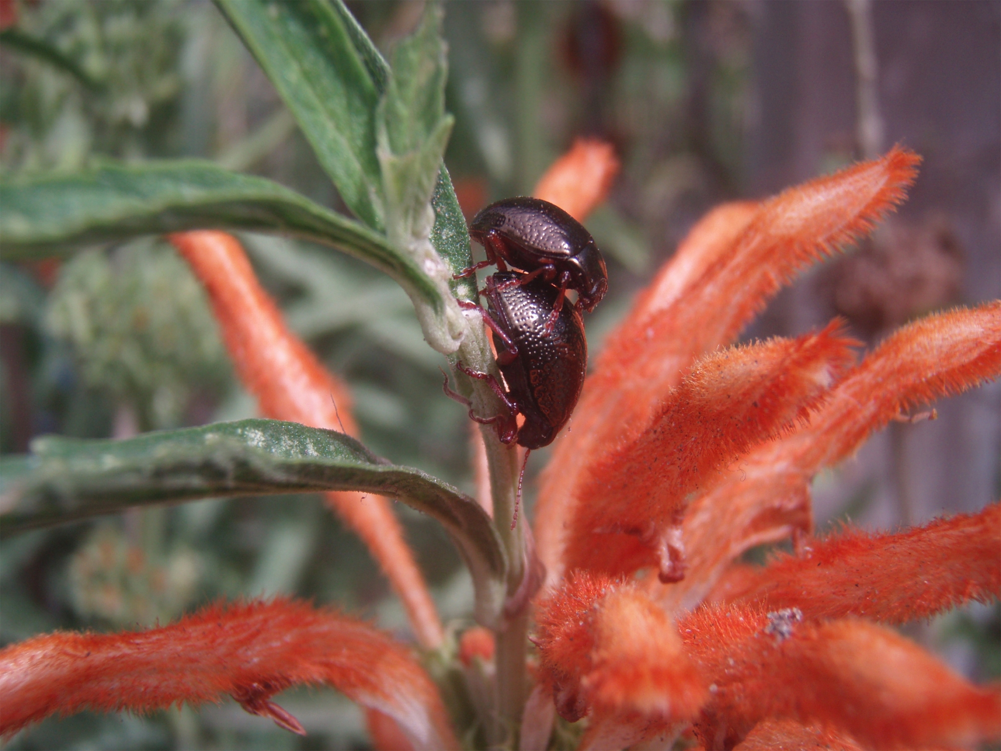 Mating beetles